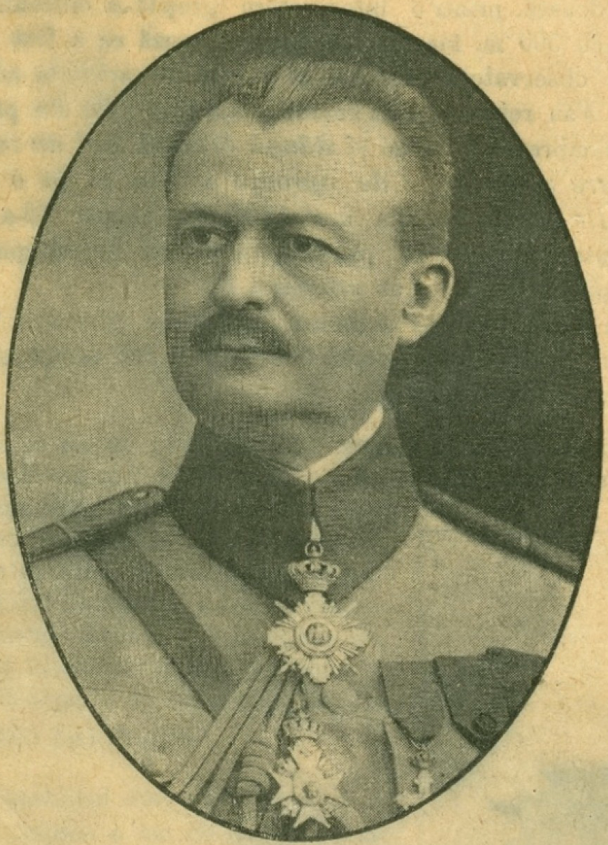 General Henri Cihoski - infantry division commander during the WW I.